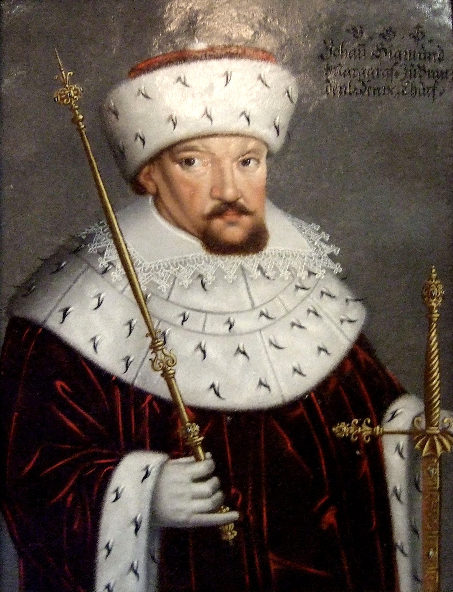 John Sigismund, Elector of Brandenburg.